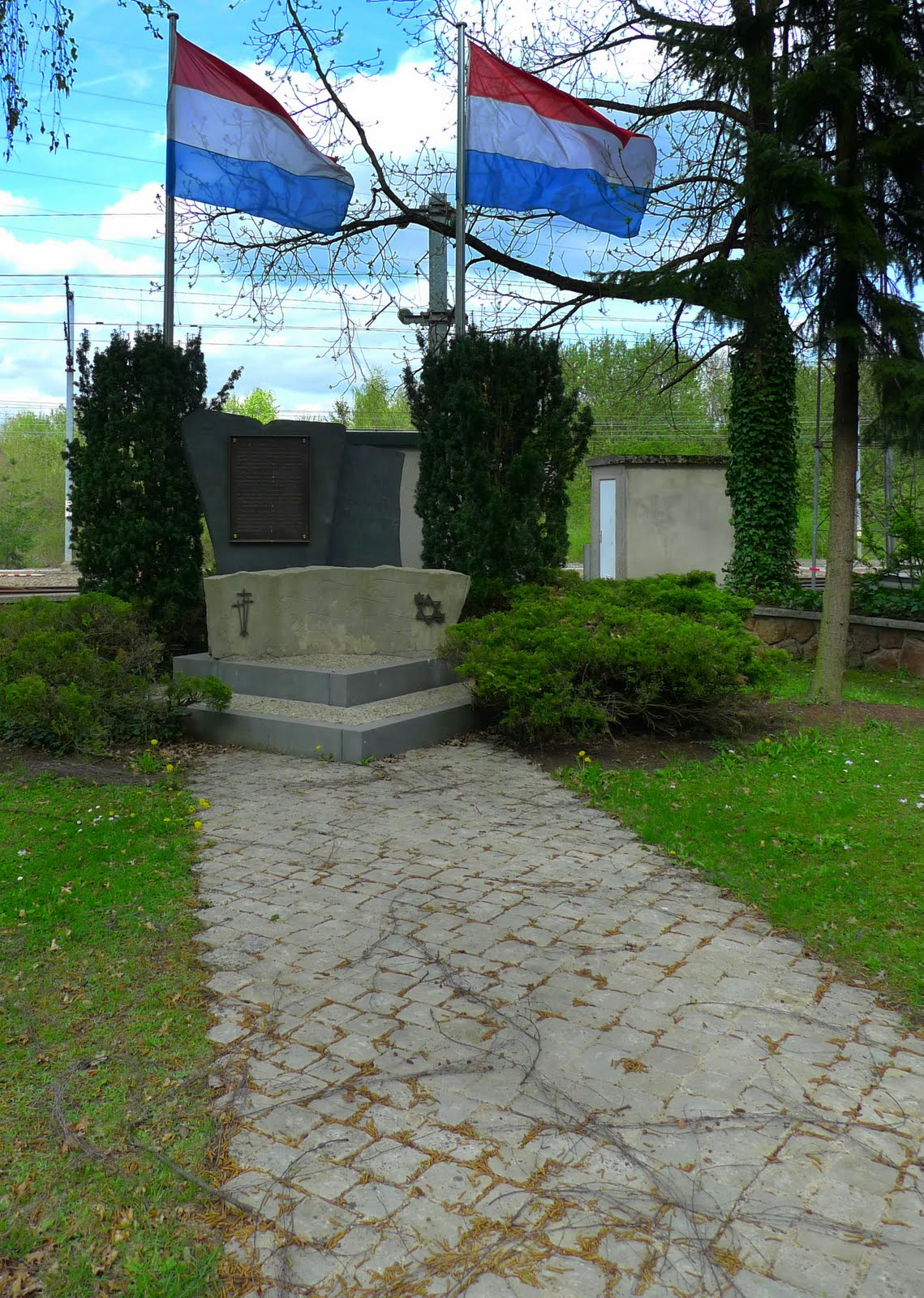 Memorial to the deportation of victims of the Nazi Occupation of Luxembourg located at Hollerich Railway Station.